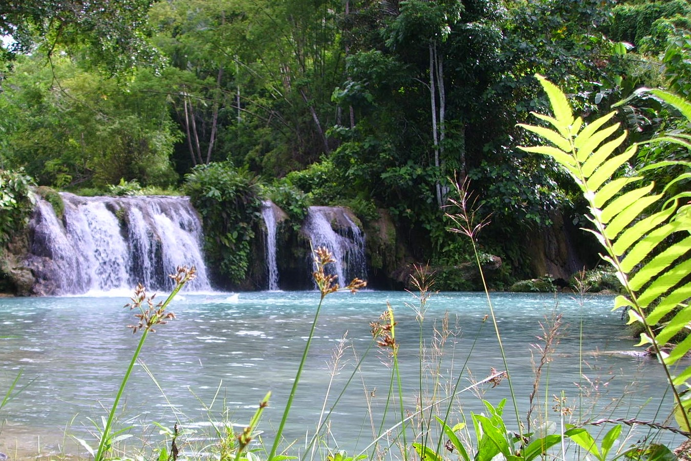 Cambugahay Falls in Siquijor Island